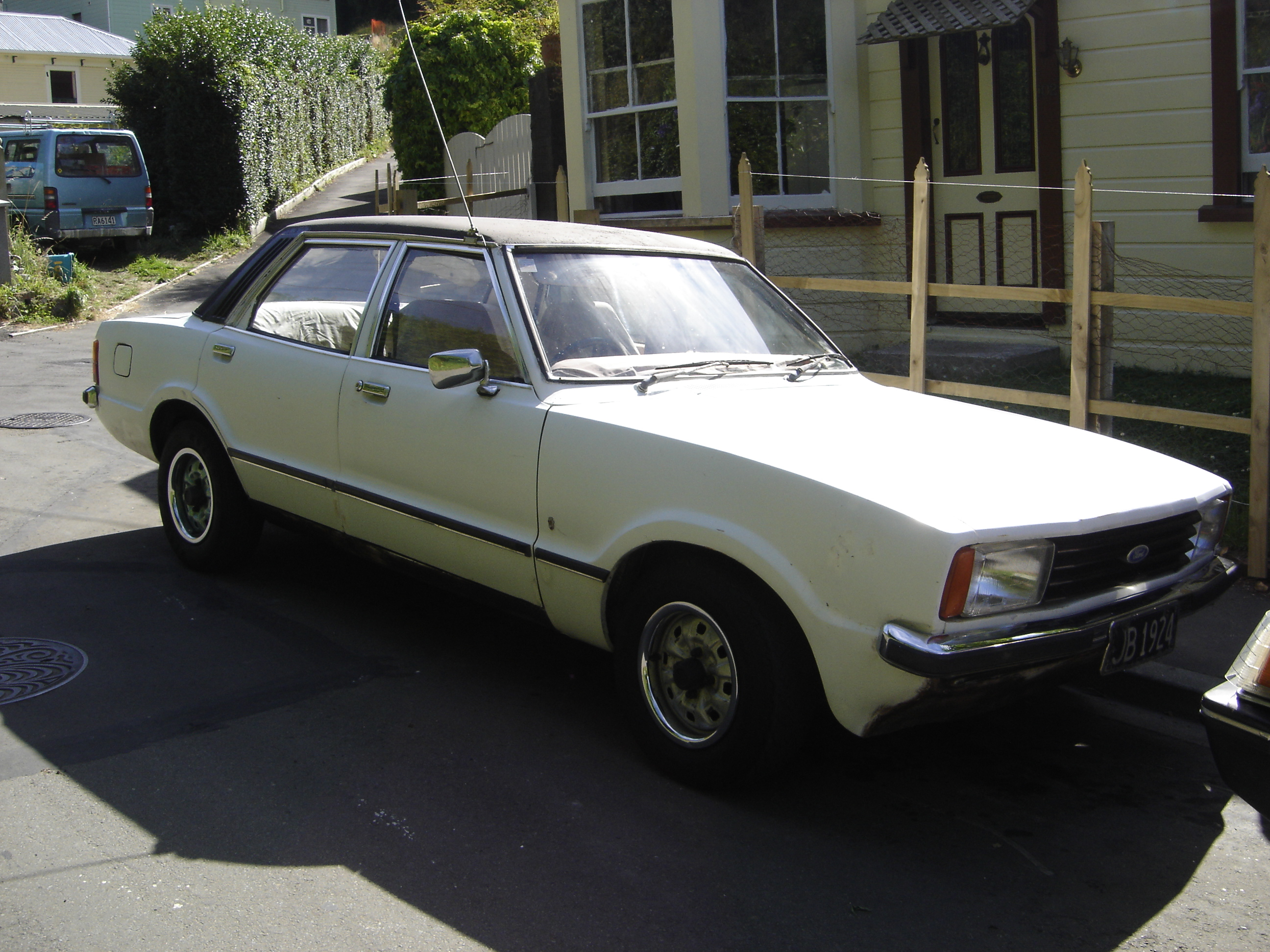 Ford Cortina Mk IV. Picture taken Wellington, New Zealand, 3rd February 2005.